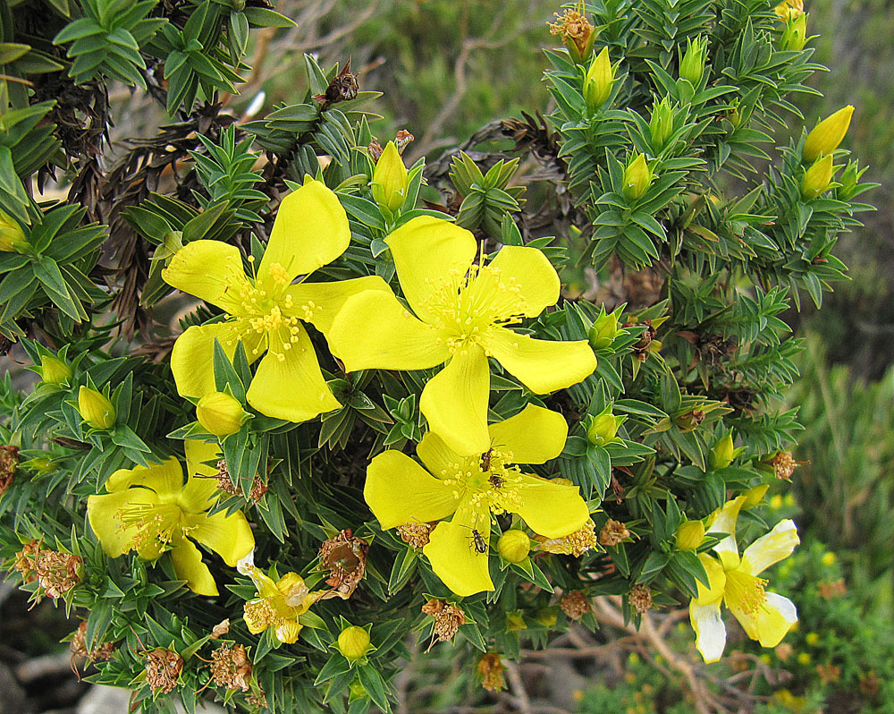 Endemic to the mountains of Costa Rica, where it is known as Culandro. Photo from near Cerro de la Muerte. In context at